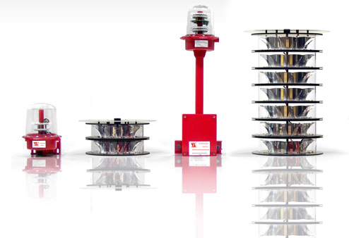 Explosion Proof Lights